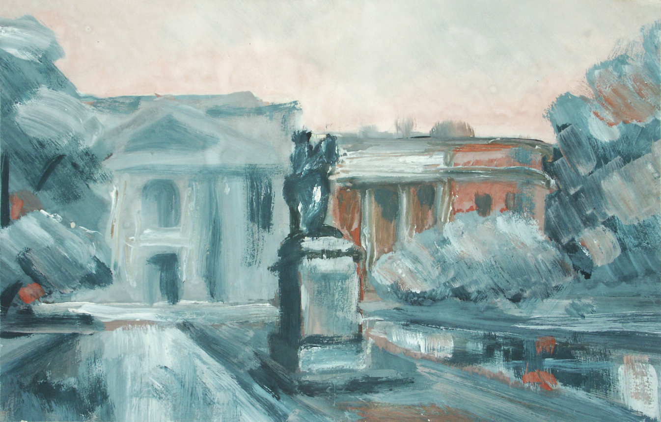 Mikhail Schultz. Ingineerniy Zamok. Tempera. 1960-ер